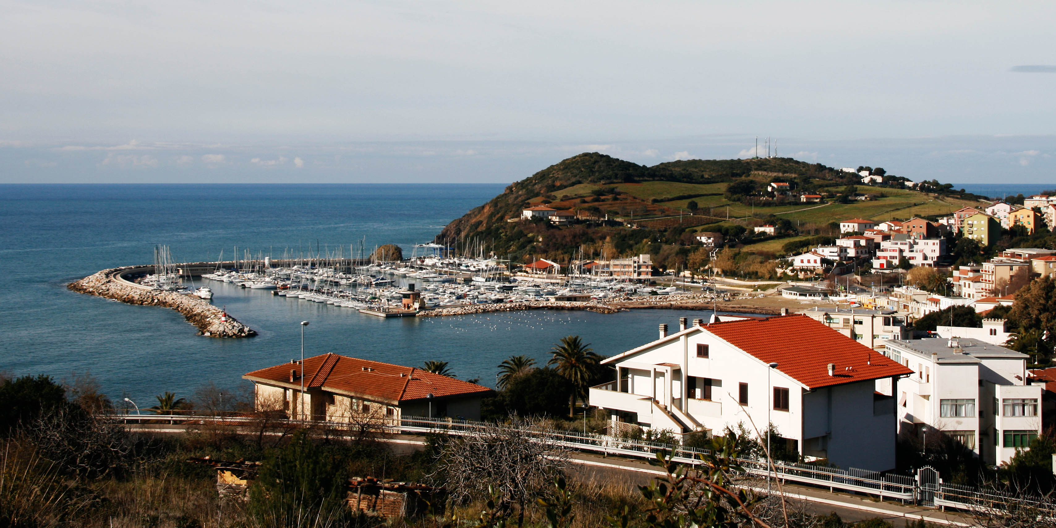 Salivoli marina — Piombino, in the province of Livorno, Tuscany.